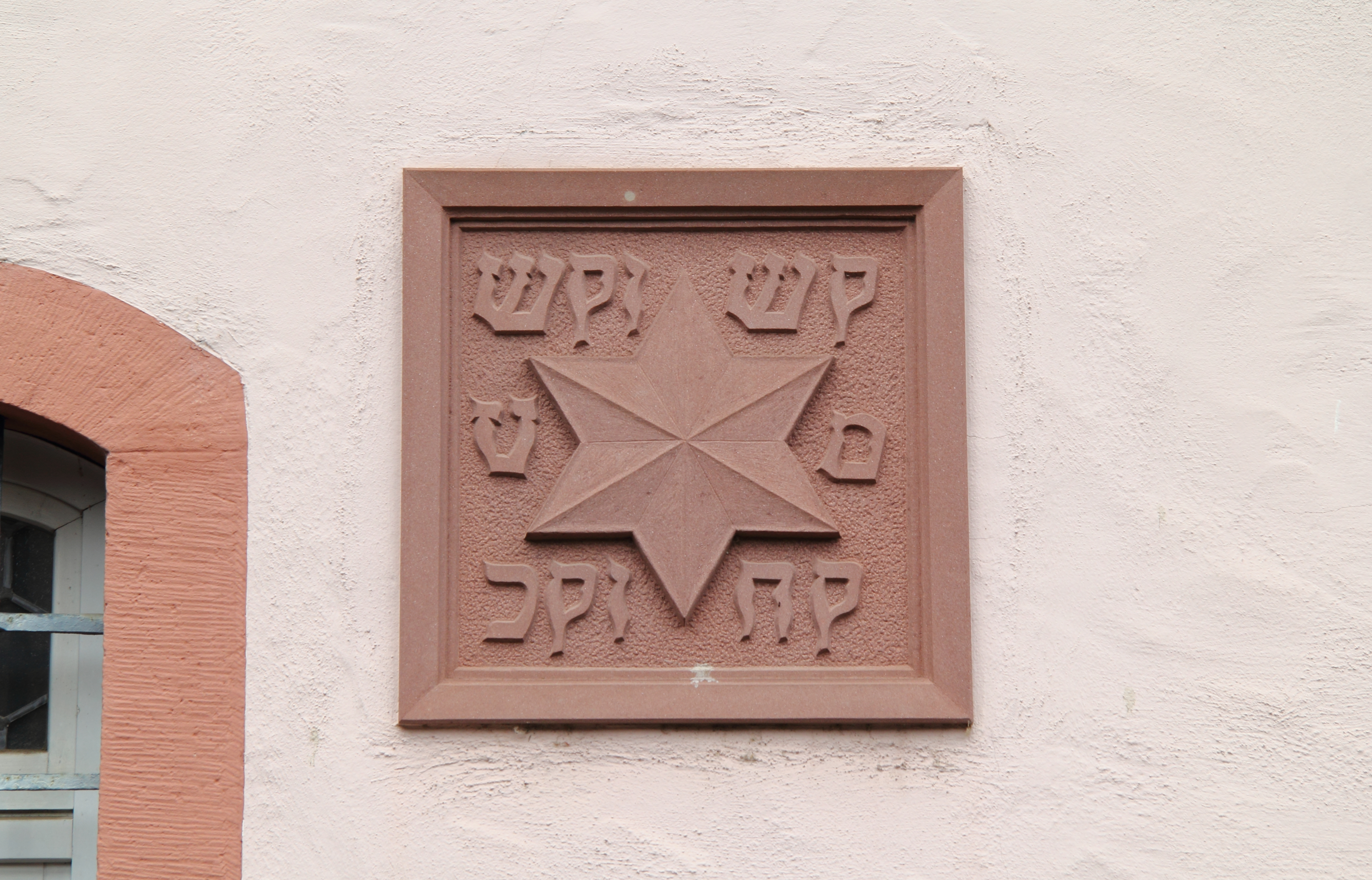 Gelnhausen, State of Hesse, Germany: former synagogue